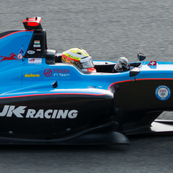 Arjun Maini with team Jenzer Motorsport at Belgian GP 2017.